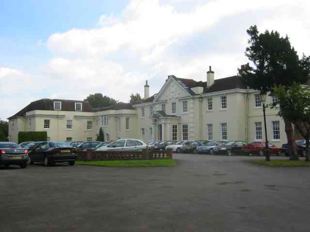 Shenley Hill Business premises. The business is related to transport but I have no further clue.